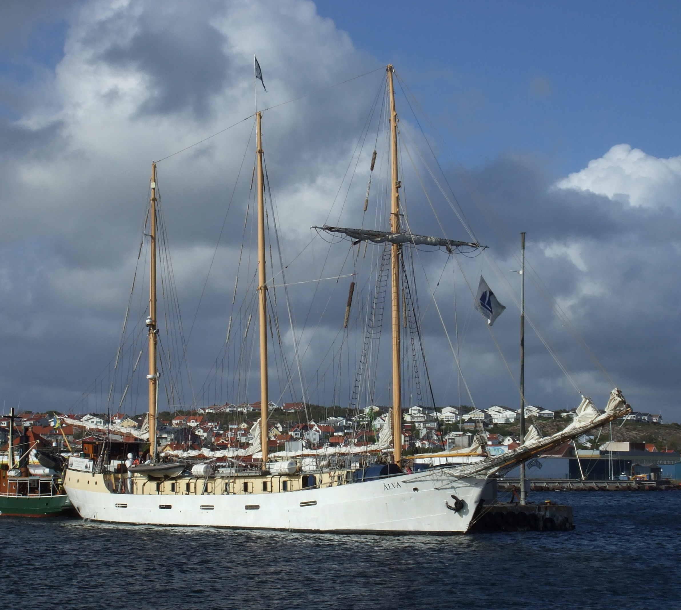 Swedish scooner Älva (Swedish for "pixie") built in 1939. Here in Lysekil June 2015.